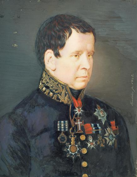 Portrait of the Viscount of Beire (1845), by Tadeu de Almeida Furtado (1813-1901)